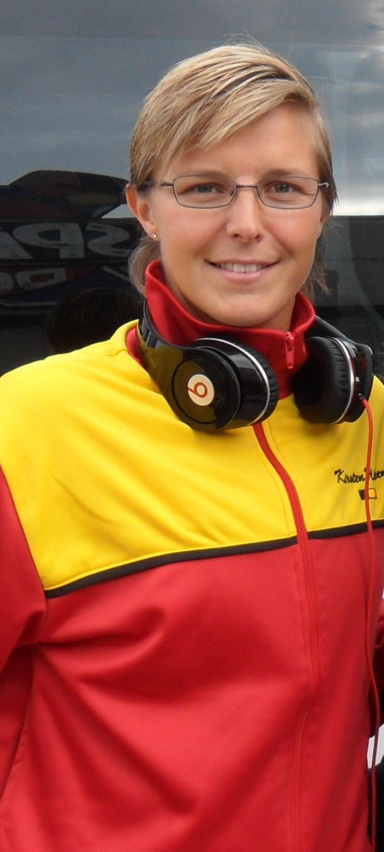 Kirsten Flipkens at the 2011 Fed Cup Semifinals against Czech Republic in Charleroi, Belgium on April 16, 2011.